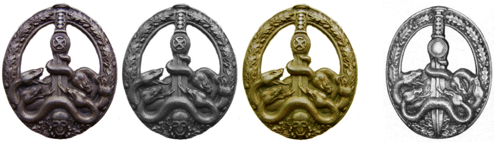 German Anti-Partisan Guerrilla Warfare Badge - 1944